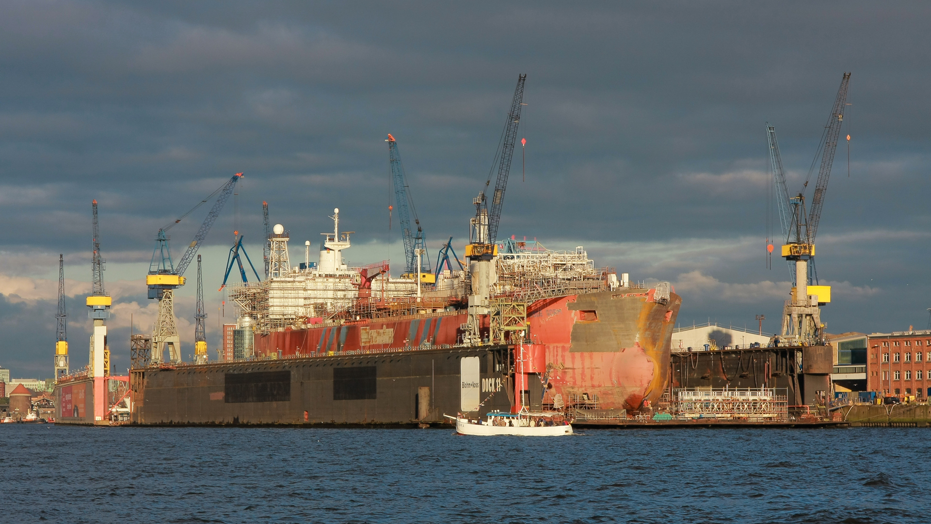 The „Uisge Gorm“ in Dock 11 of Blohm+Voss, Elbe, Hamburg